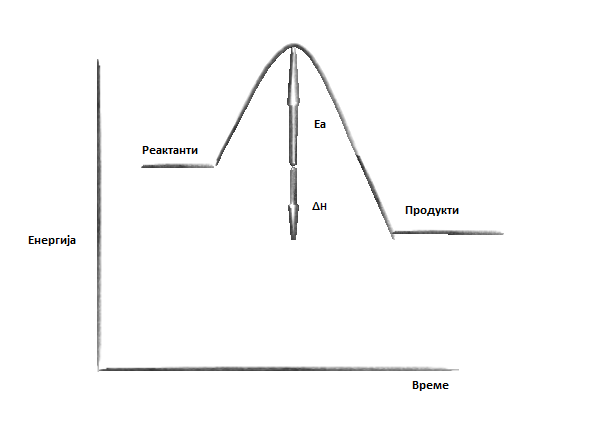 graphic for exothermic chemical reaction